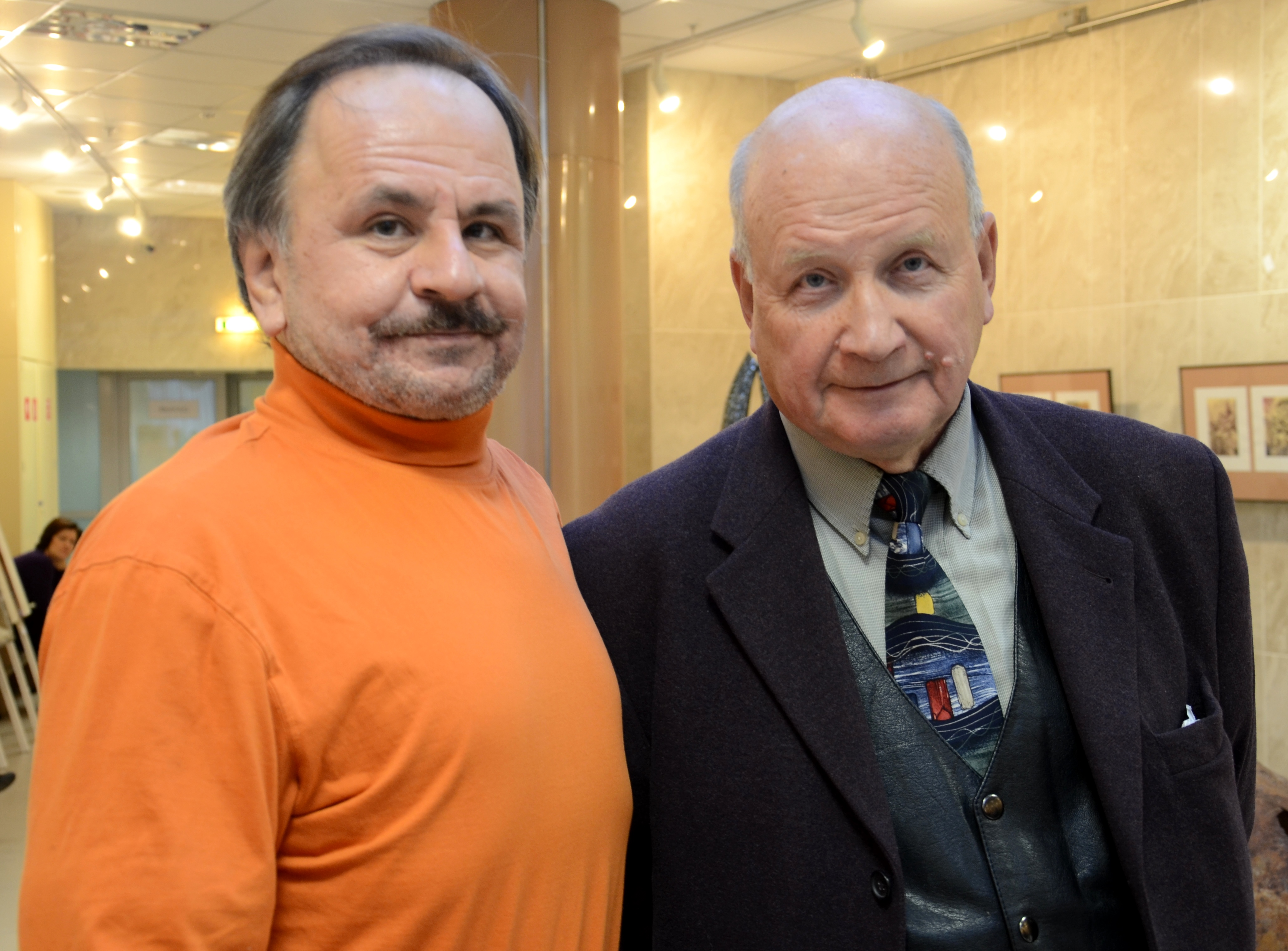 Оpening of an exhibition of graphics of Yury Yakovenko "the Kingdom of Solomon" in National library of Belarus on October 30, 2014